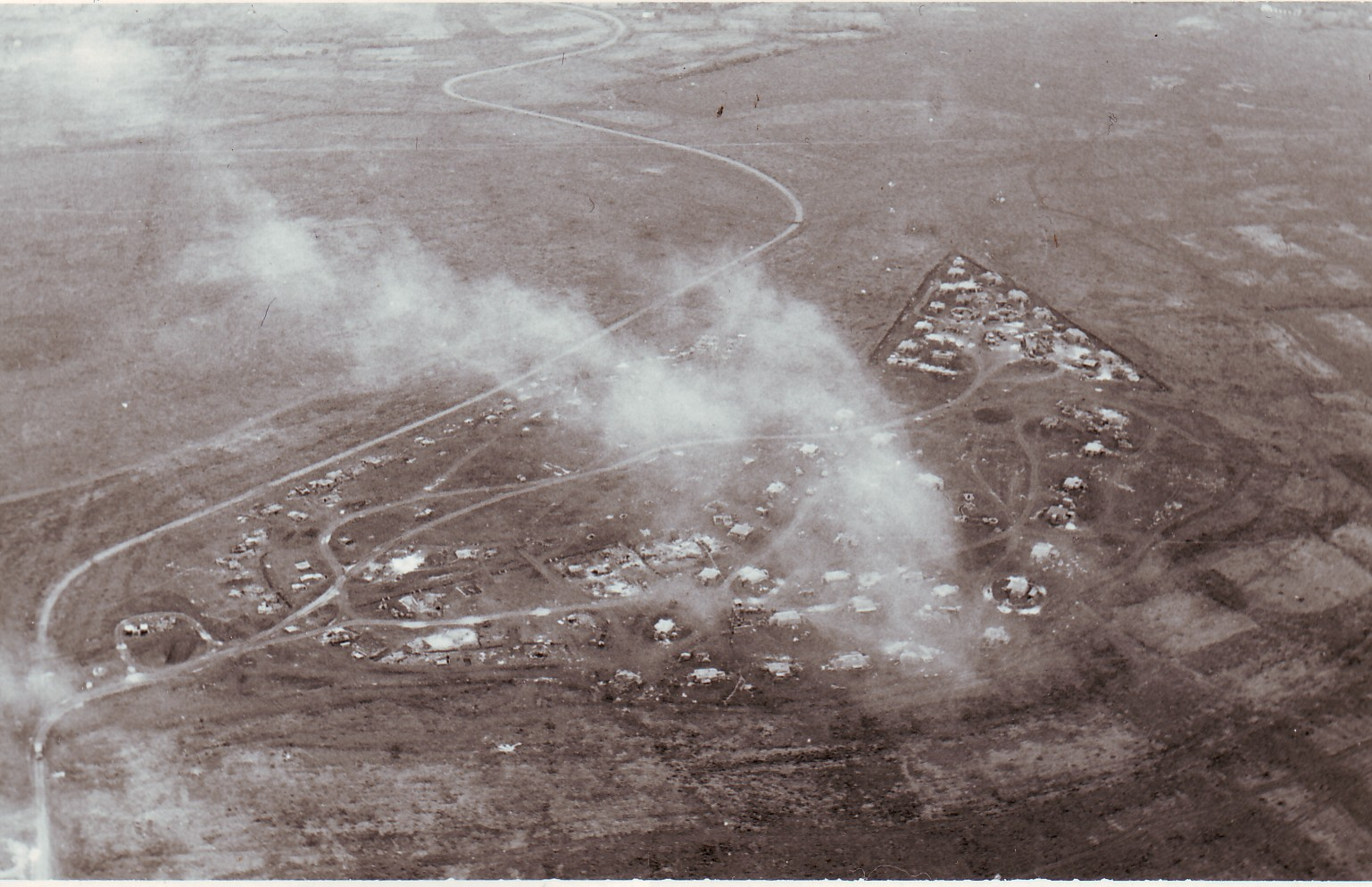 Gio Linh Marine Outpost March 1968.